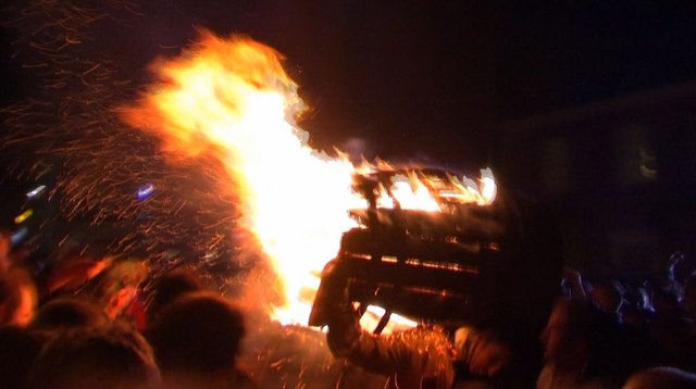 Ottery St Mary : The Square & Burning Tar Barrel You get pretty close to the barrels, and you can feel the heat as they pass. This barrel is on its way out.